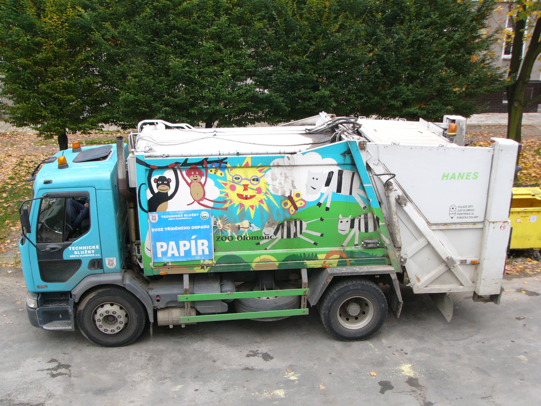 Car for collection of paper for recycling in Olomouc in the Czech Republic.